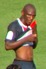 Zoumana Camara (PSG)